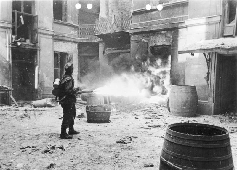 In the occupied areas of Warsaw, German soldiers set all buildings on fire to decrease the chances of the AK (Home Army) using them in the future.